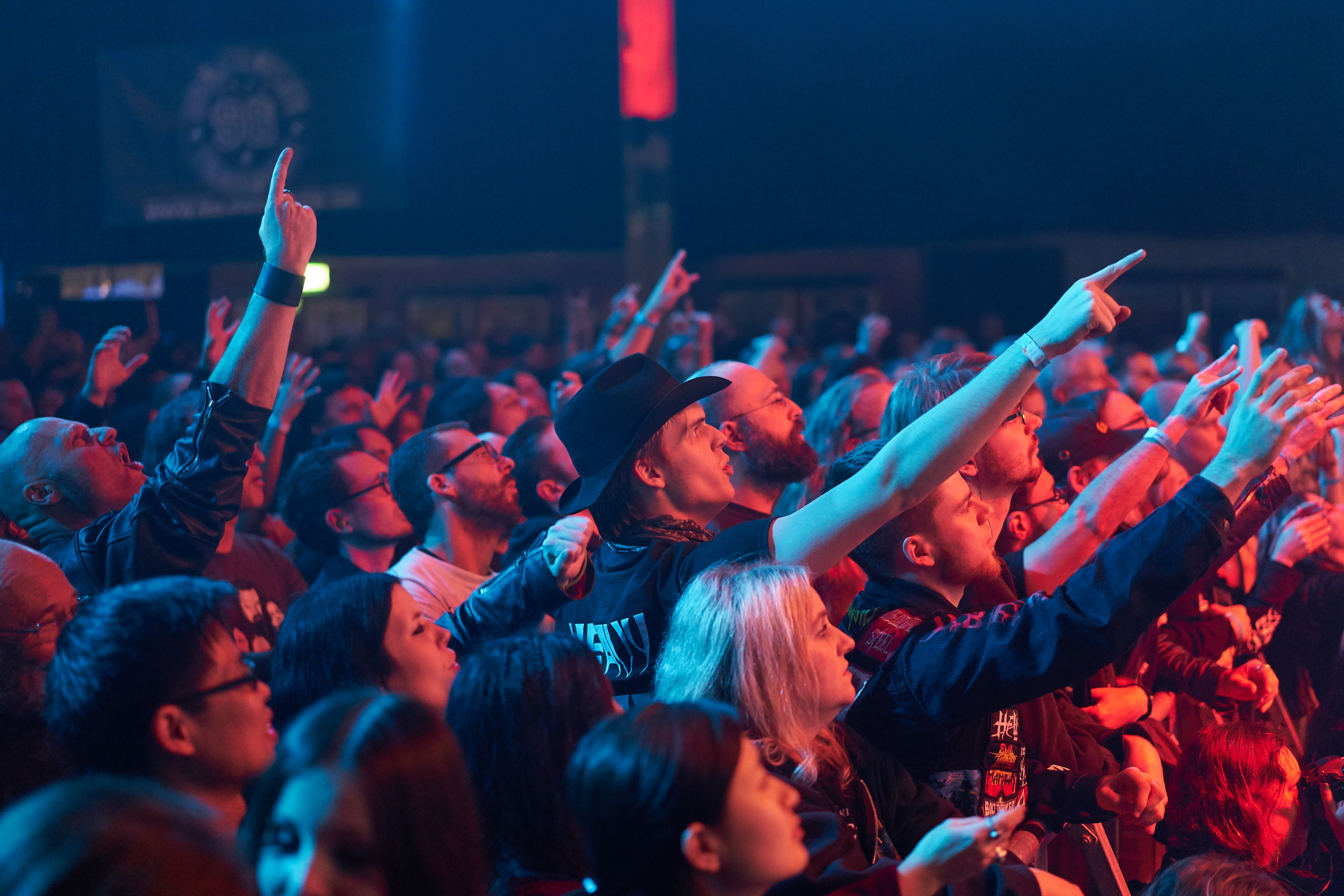 Visitors of the tenth "Hammer of Doom"-Festival in Würzburg, Germany, 2015